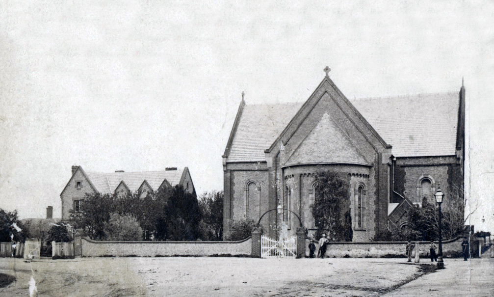 Christ Church and parsonage, west side of Palmer Place, North Adelaide. Built of limestone mined from Palmer Place, and roofed with slates from Willunga, this Norman style church was opened on the 20th December, 1849, by Bishop Augustus Short. Photograph; 9.4 cm x 6.2 cm